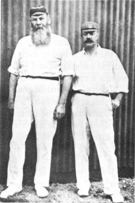 W.G. Grace and Billy Murdoch